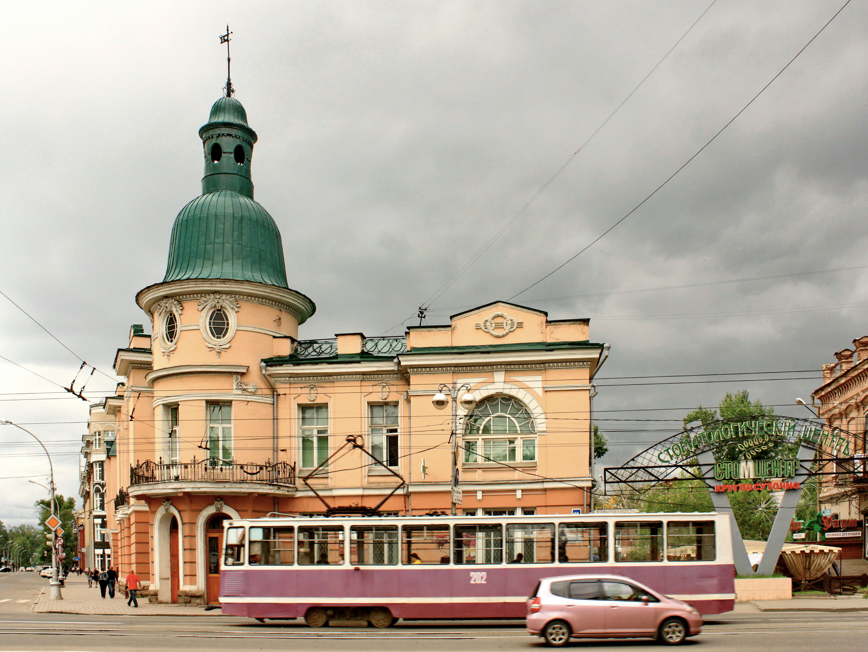 Building of former Russian-Asian Bank. Irkutsk, Russia.